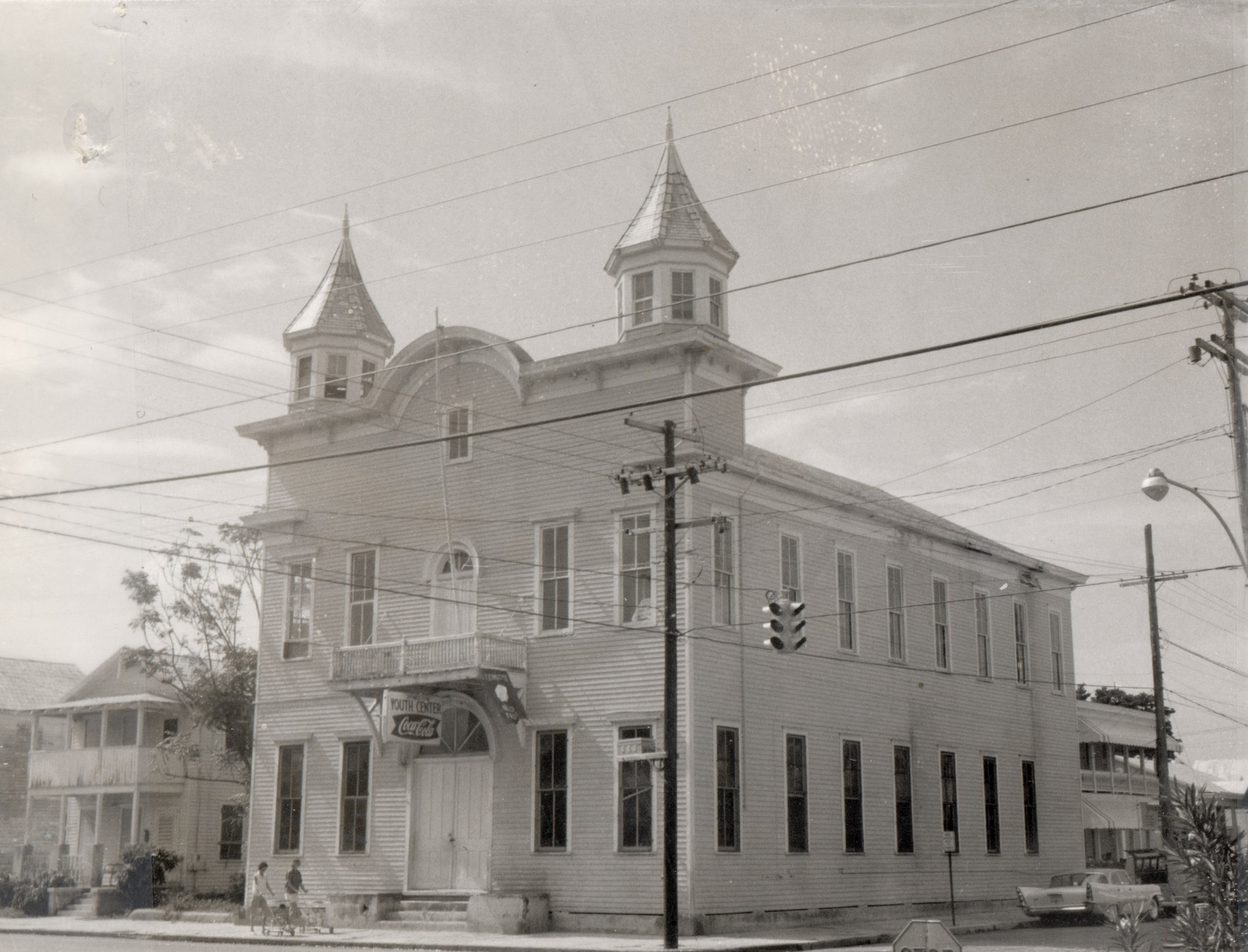 Key West, Florida. "Youth Center" building. Photo taken by the Property Appraiser's office c1965; 600 White St.; built c1902; Armory Building, Optimist's Youth Center; Sqr 55, Pt Lot 2